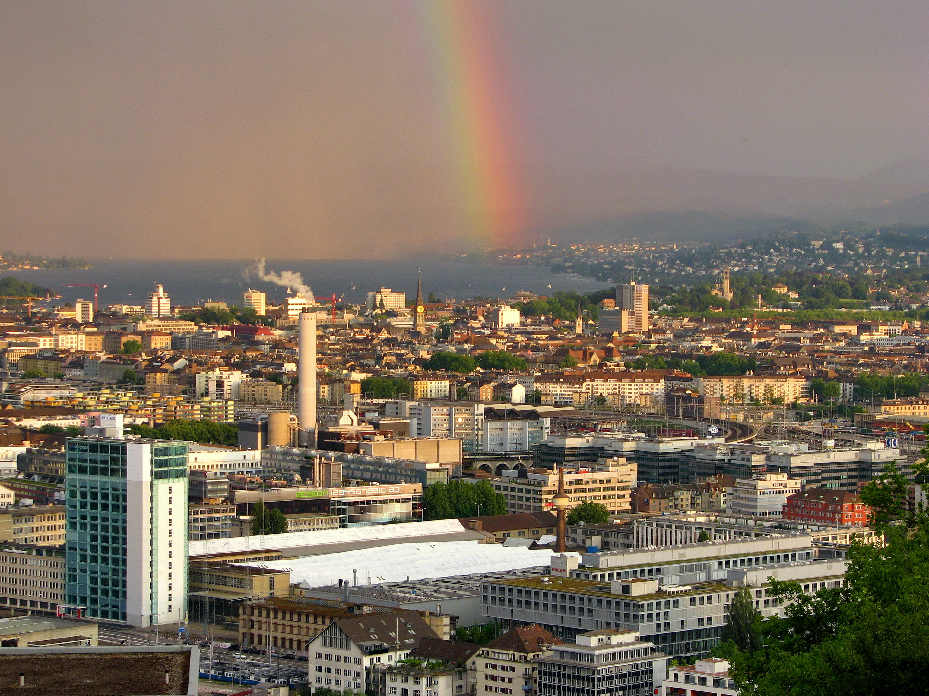 Zurich : Zürich "downtown" and Lake Zurich as seen from Käferberg-Waidberg hill.